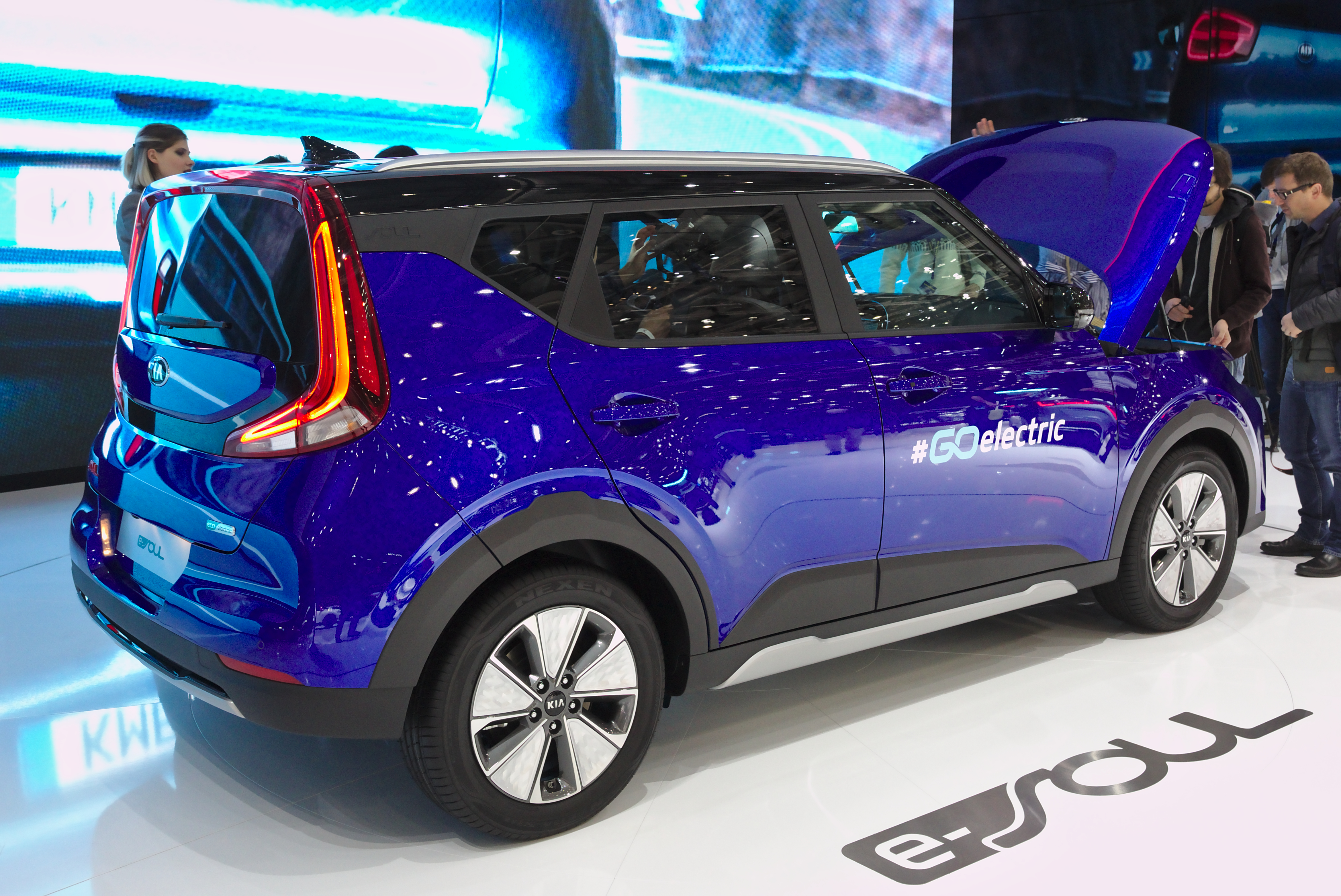 Kia e-Soul at Geneva Motor Show 2019